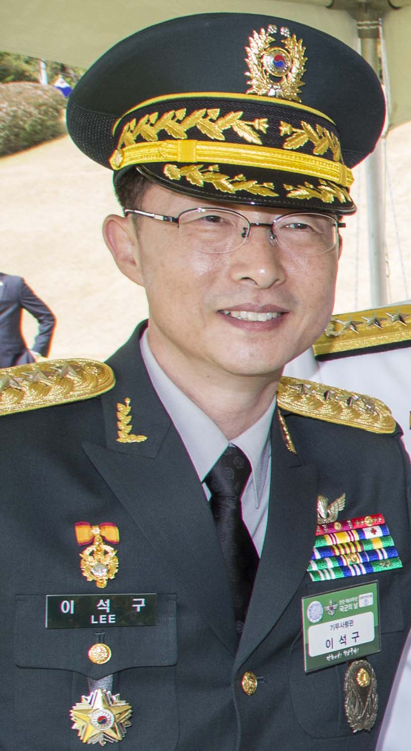 Lieutenant General Lee Suk-koo, Commander of the Republic of Korea Defense Security Command.